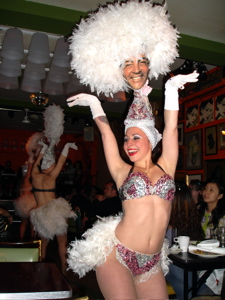 This picture was taken by myself on April 10, 2005 during a burlesque show at the restaurant Marion's in New York, NY